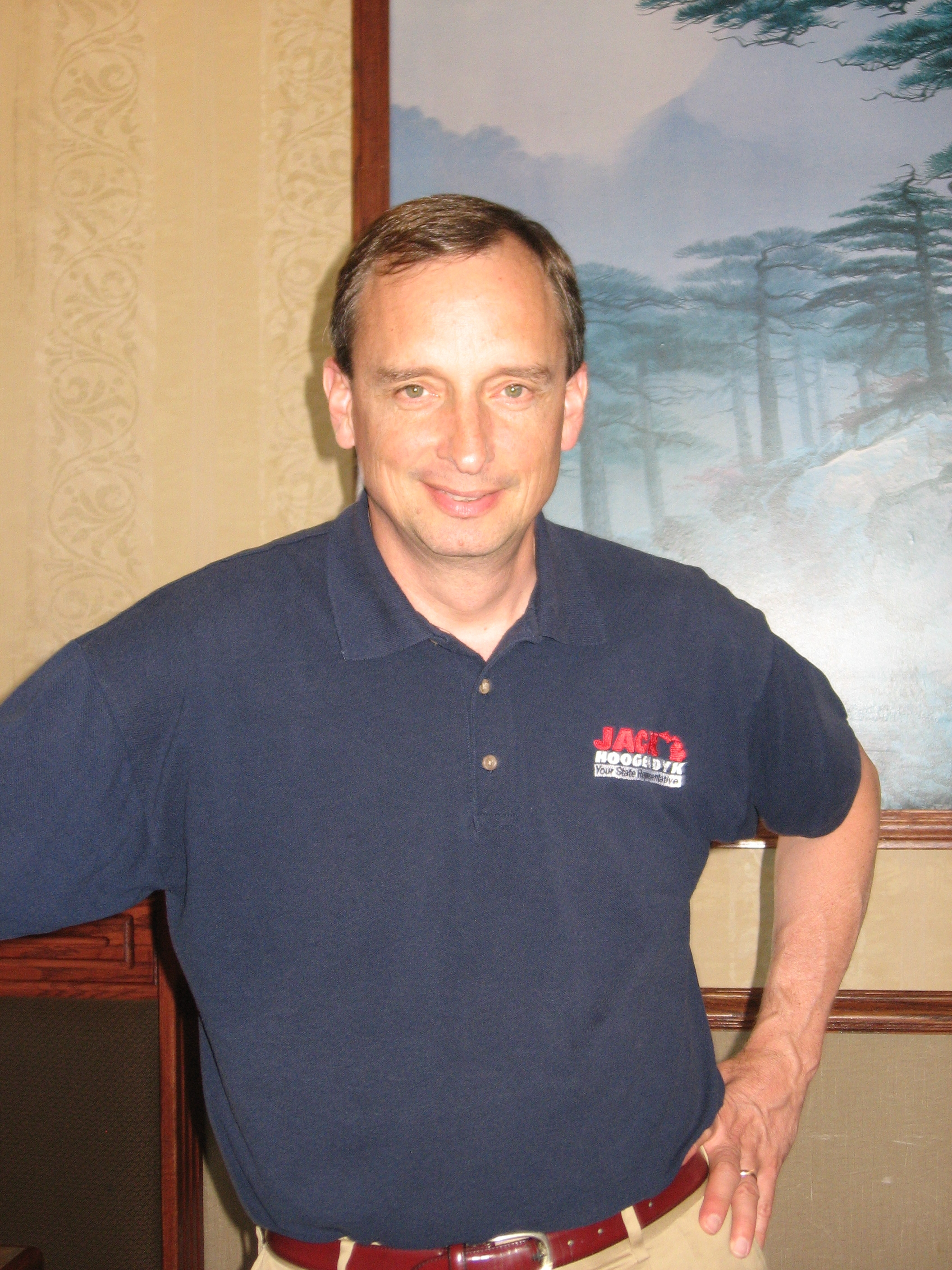 Author is KeithAlmli